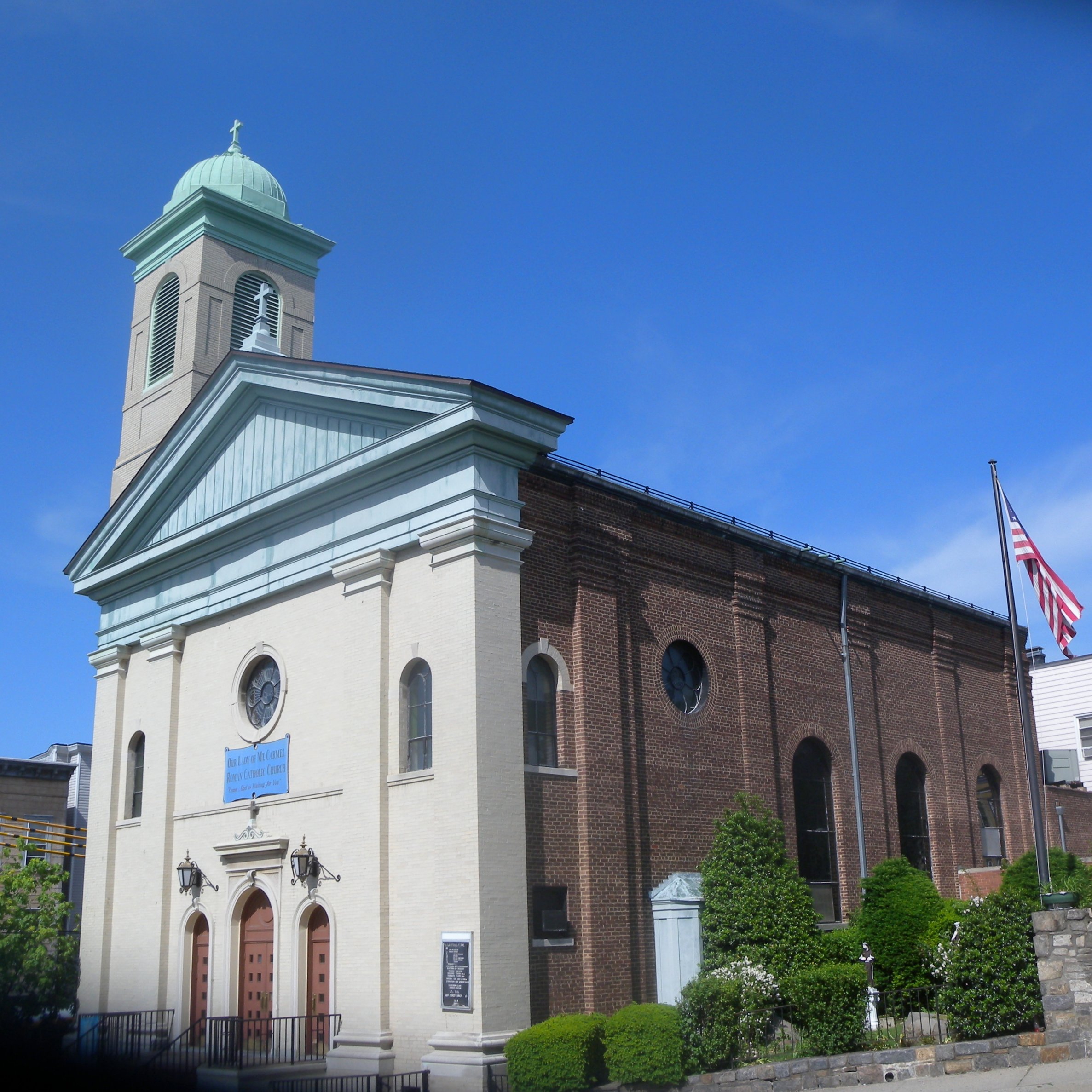 Looking northeast across Park Hill Avenue at Our Lady of Mt Carmel on a sunny afternoon.